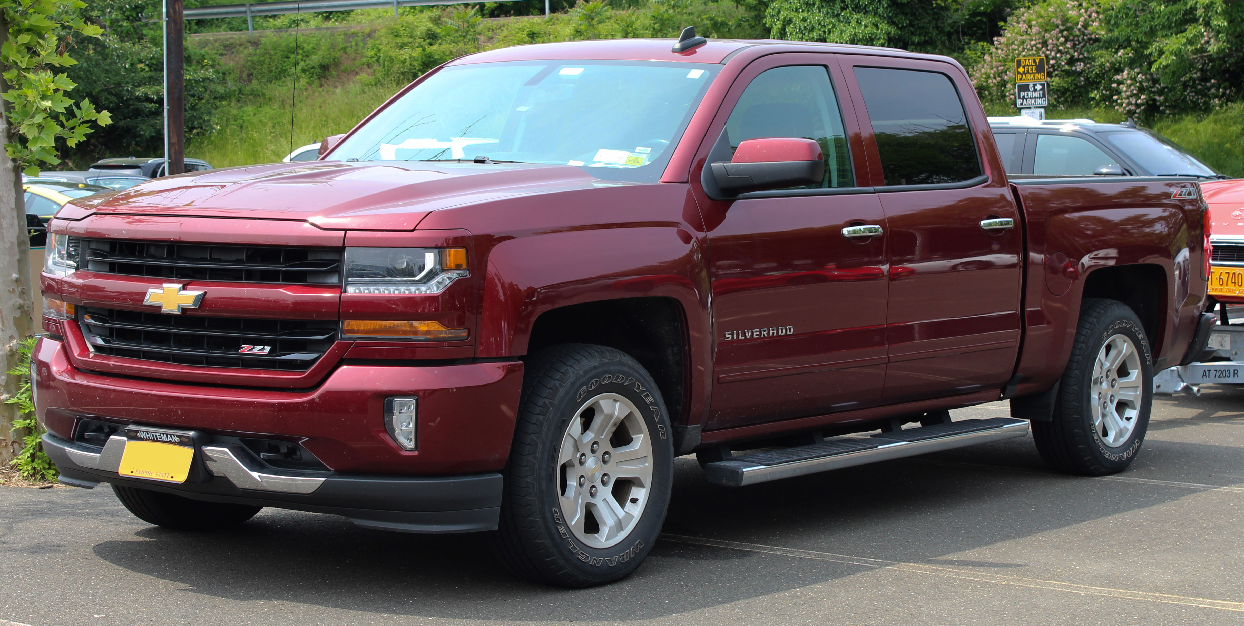 A 2016 Chevrolet Silverado 1500 LTZ Z71 with trailer attached with a C1 Corvette on it, photographed in Greenwich Concours d'Elégance Hagerty parking lot, Connecticut, USA